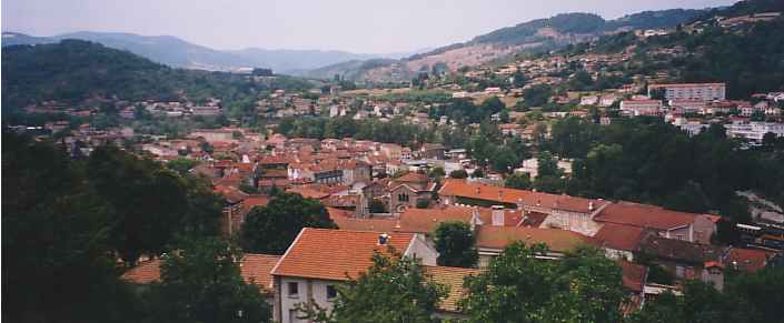 Panorama Lamastre